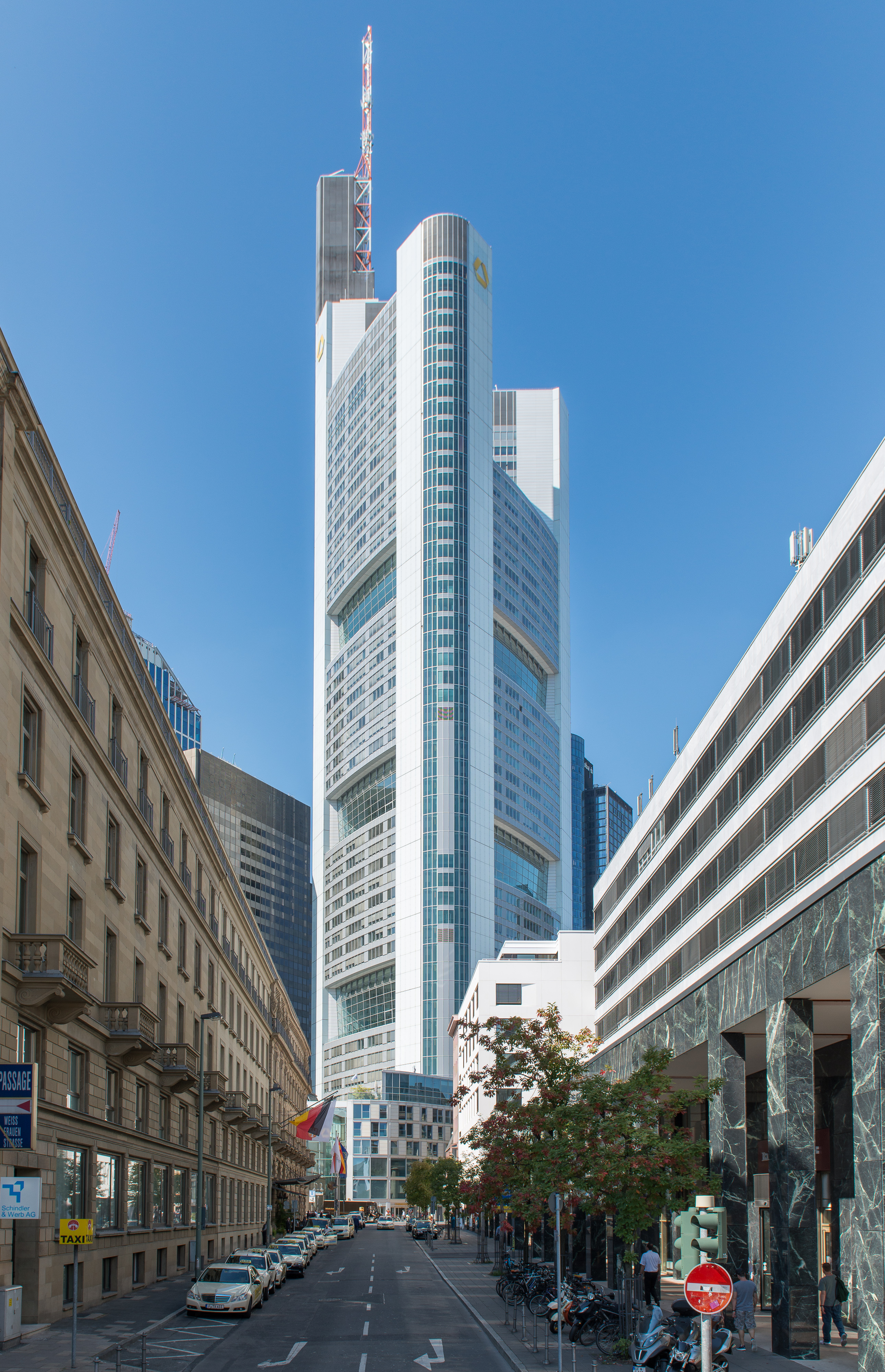 Frankfurt am Main, Commerzbank tower as seen from South (September 2013).